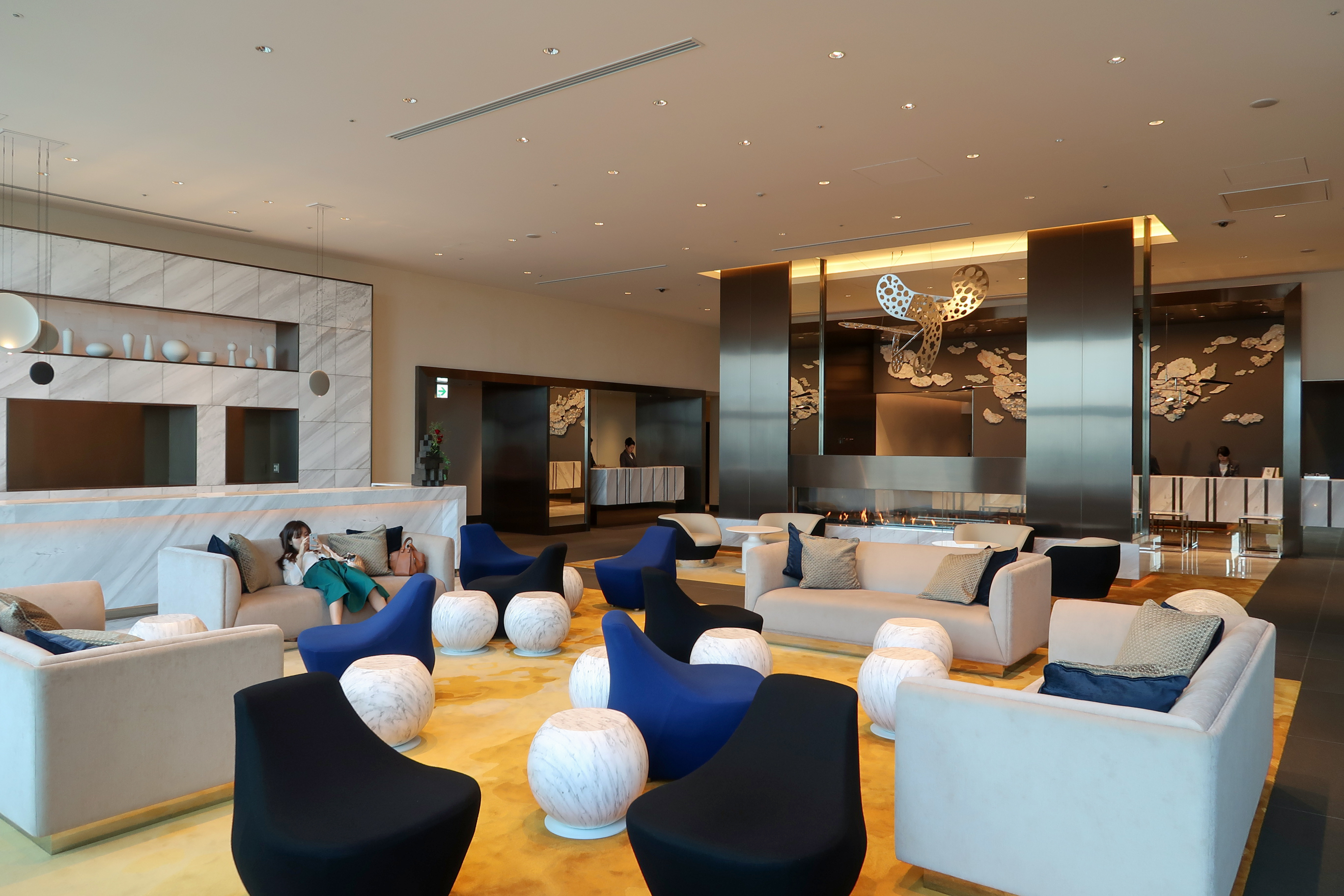 The Prince Gallery Tokyo Kioicho